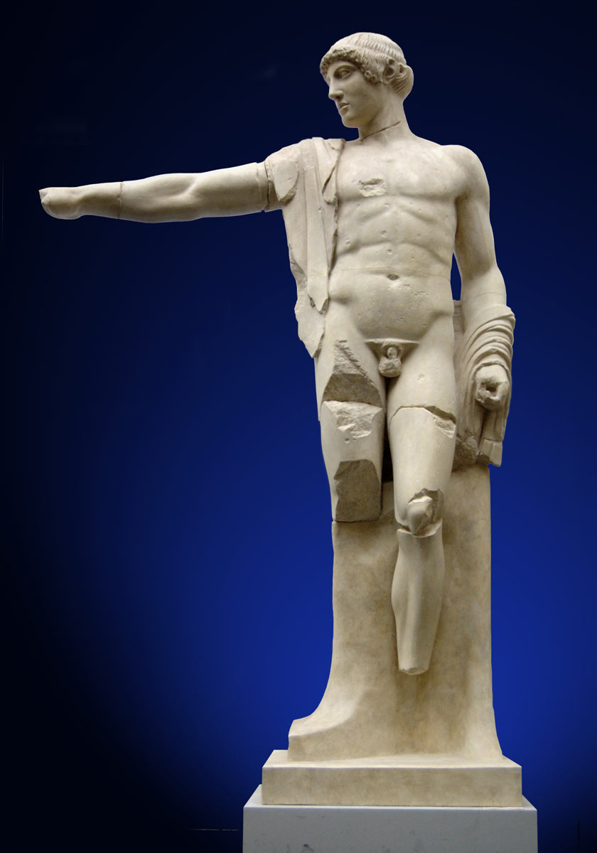 Apollo, figure of the west pediment of the Temple of Zeus in Olympia. Modern plaster cast of the original in the Olympia Museum (see below). Note: this should not be referred to as a "copy"